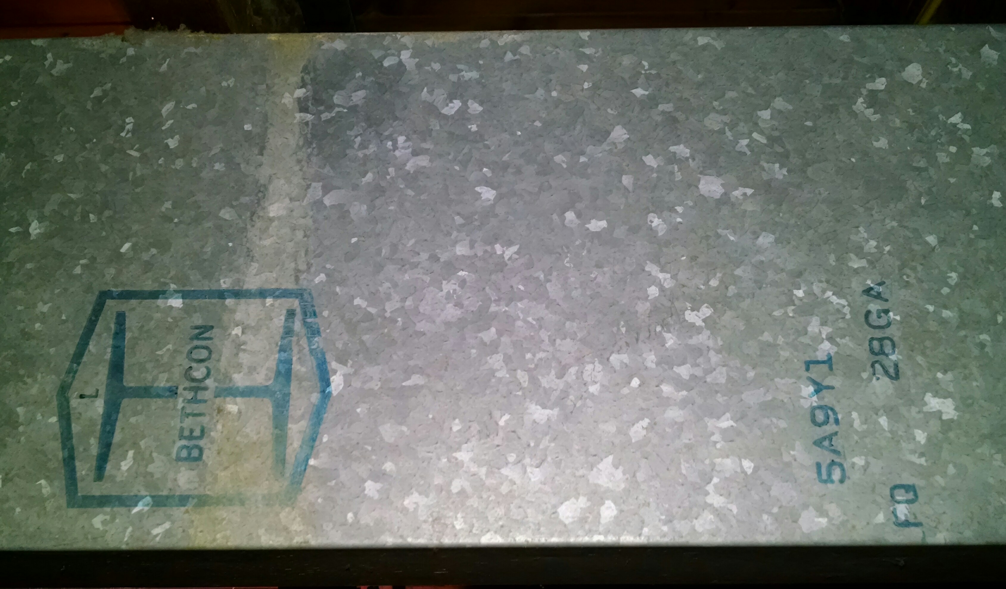 BETHLEHEM STEEL - BETHCON HVAC ducting found in a residential house built in Buffalo, New York (Bethcon trademark expired 2004)